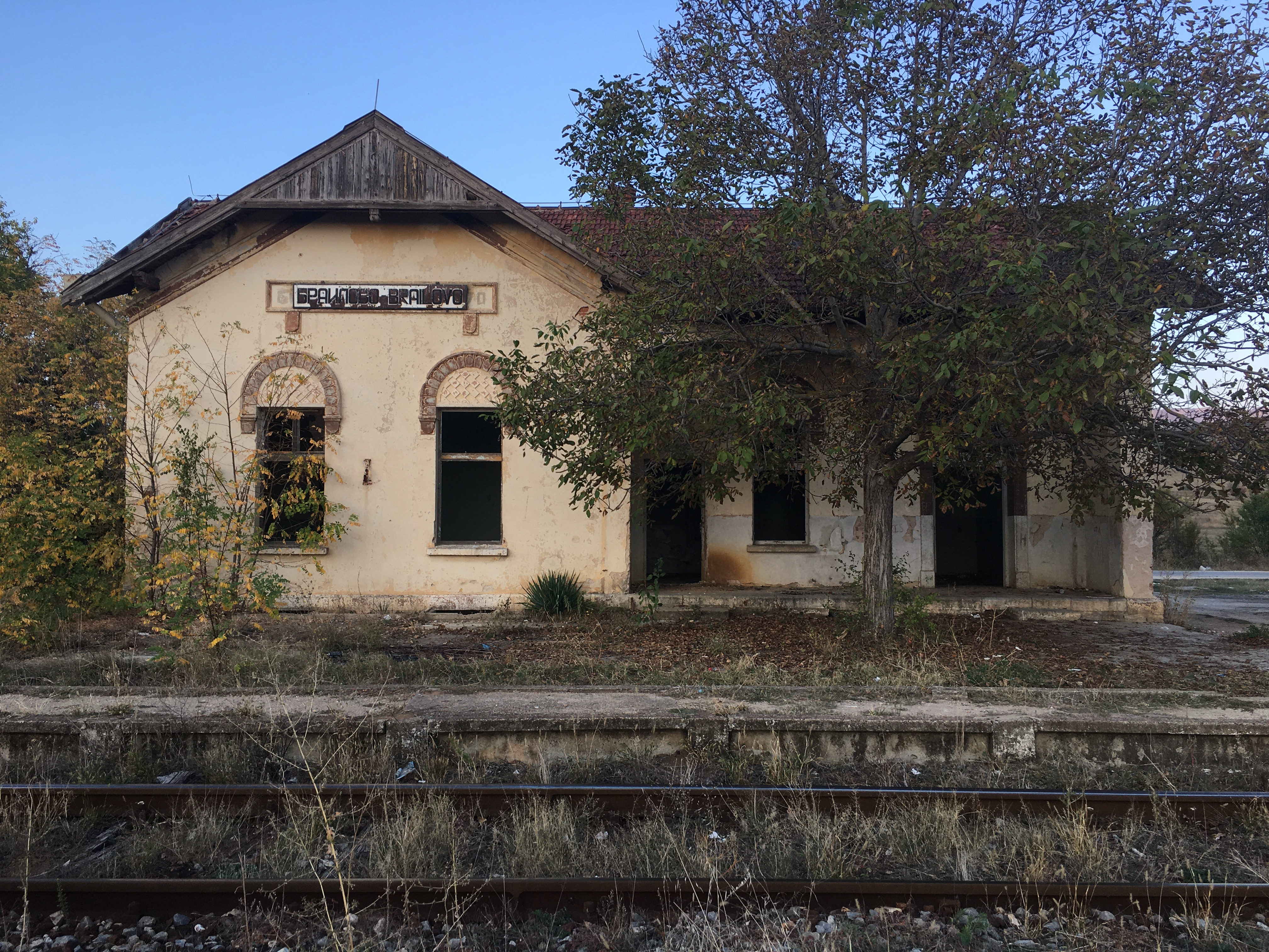 Brailovo train station